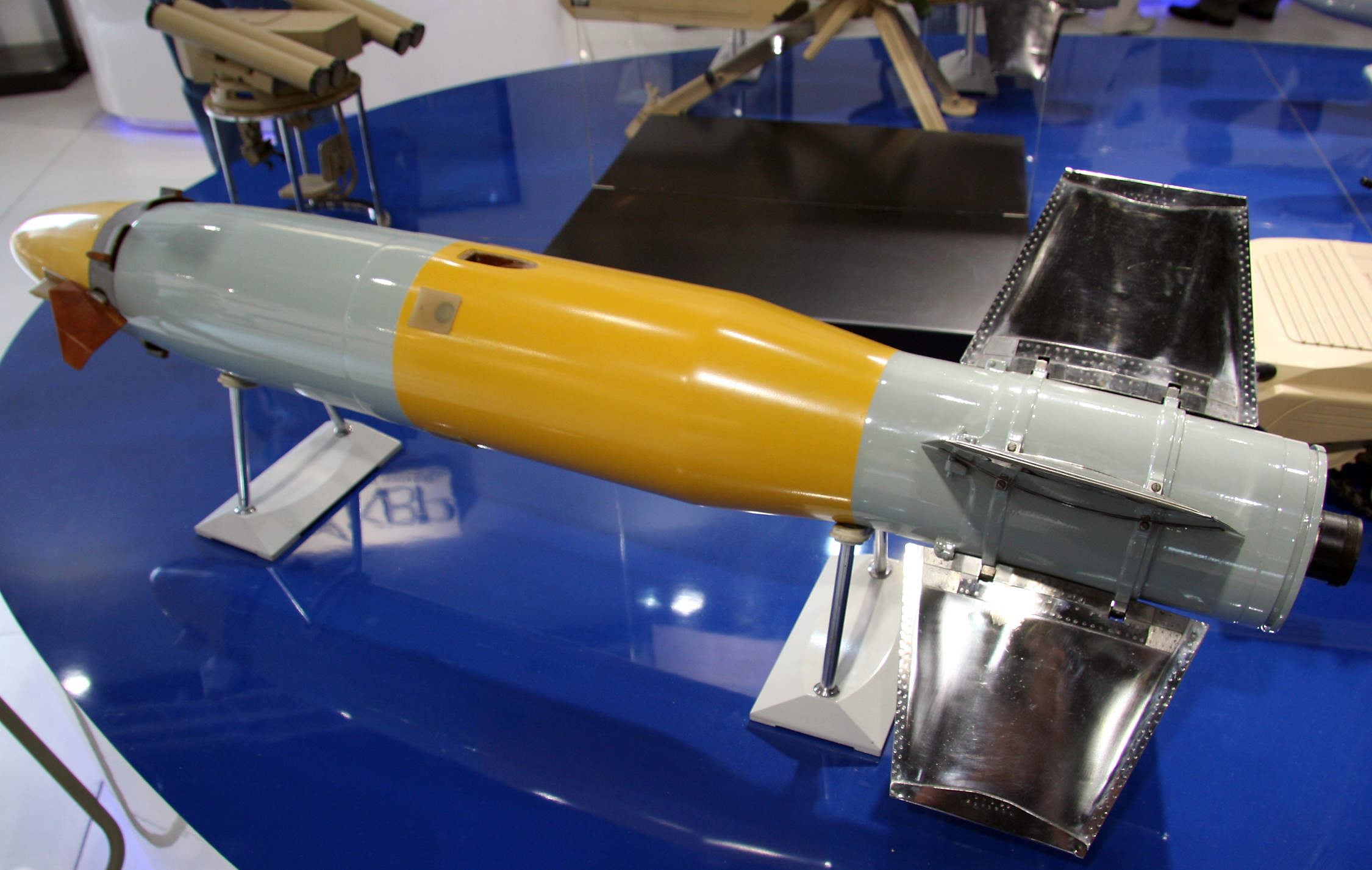 Anti-tank guided missile system Kornet-E